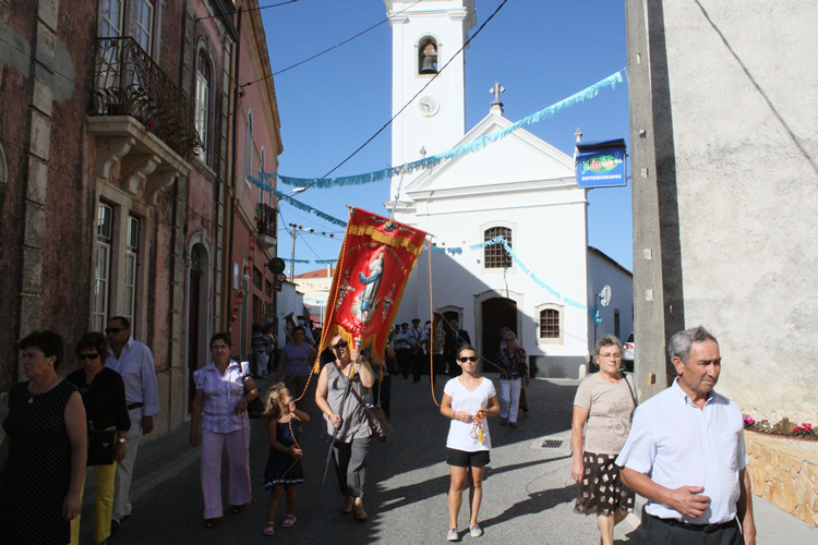 Capela da Nossa Senhora da Saúde